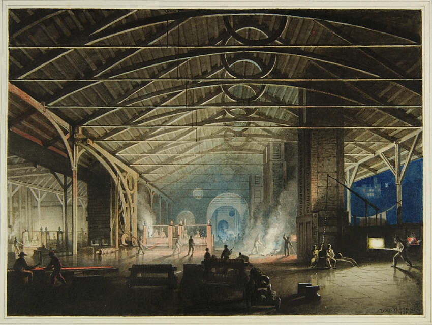 A reverberatory is on the right, rolling mills on left.